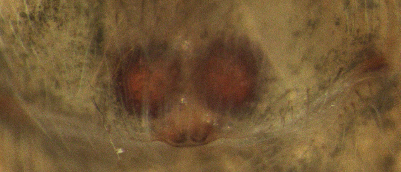 Stiphidion facetum (epigynum)